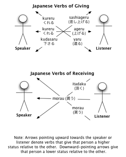 Original illustration explaining Japanese verbs of giving and receiving (both from the speaker's point of view and from the listener's point of view). Created October 2004 in Omnigraffle 3 by User:Che_fox.